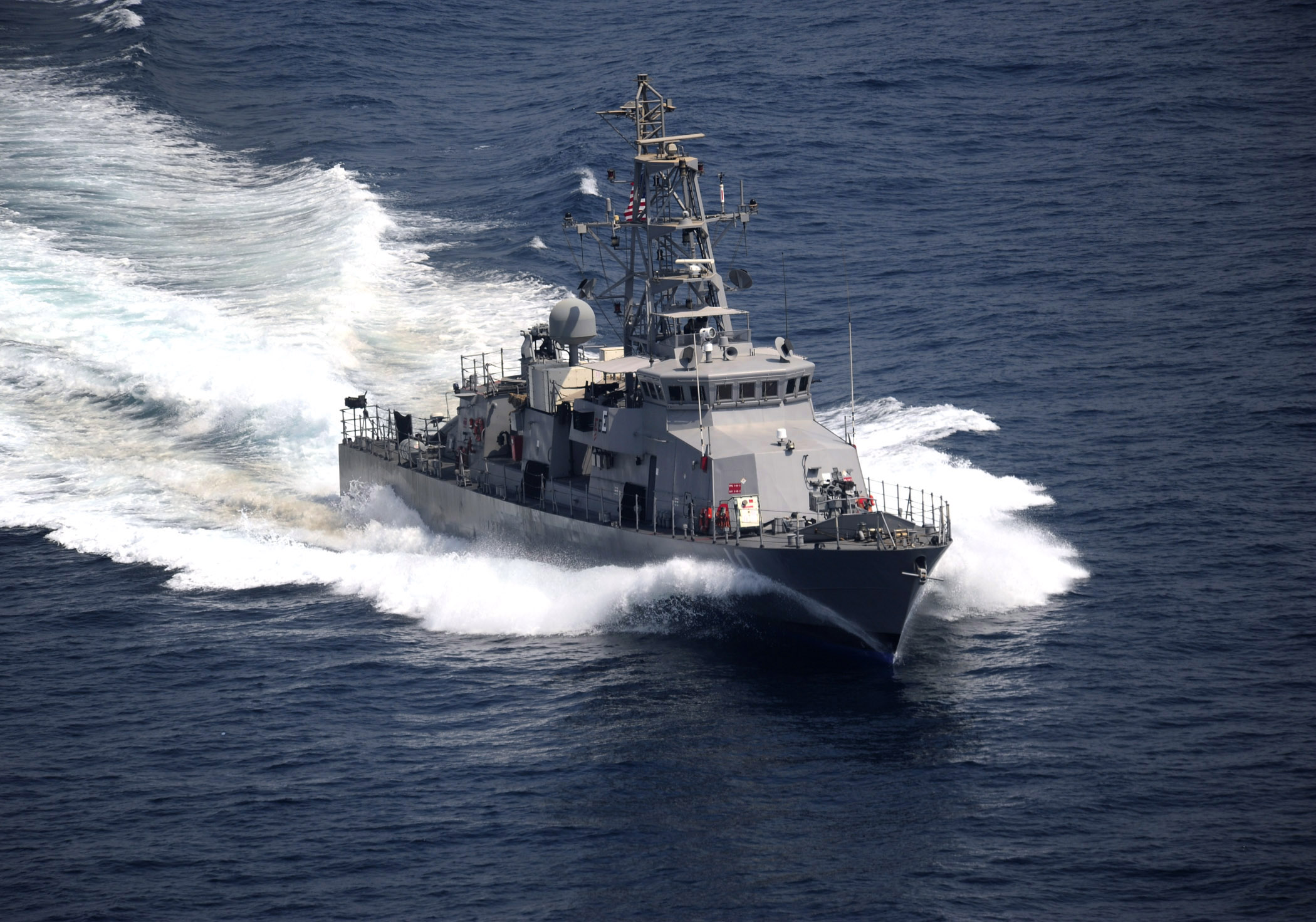 PERSIAN GULF (Oct. 1, 2011) The cyclone-class coastal patrol ship USS Firebolt (PC 10) is underway during an exercise in the Persian Gulf. Firebolt is supporting the John C. Stennis Carrier Strike Group while deployed to the U.S. 5th Fleet area of responsibility. (U.S. Navy photo by Mass Communication Specialist 2nd Class Walter M. Wayman/Released)